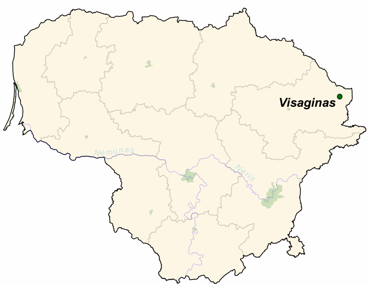 Visaginas on the map of Lithuania